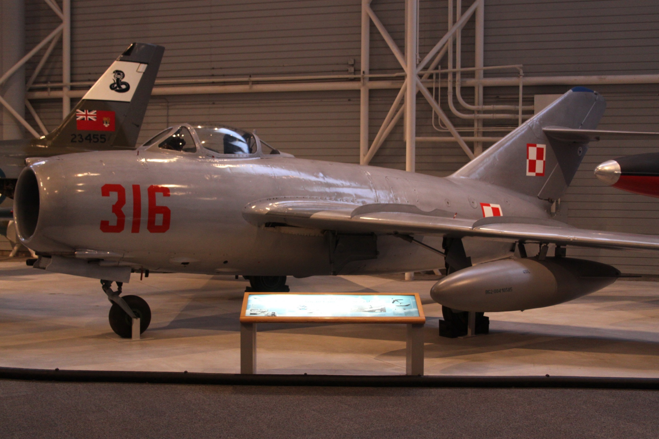 At Rockcliffe Canada Aviation Museum